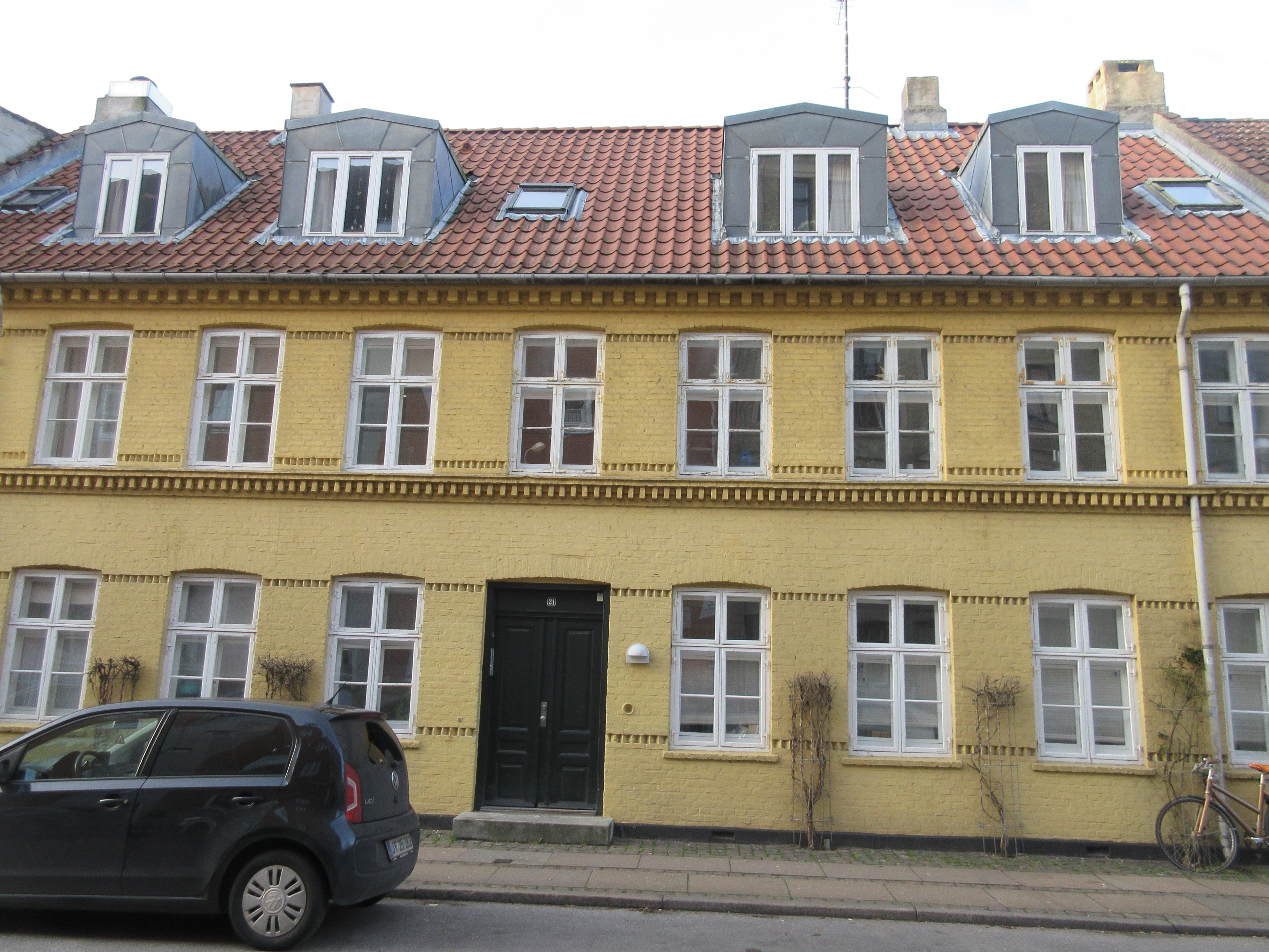 Meinungsgade 21 in Copenhagen, Denmark